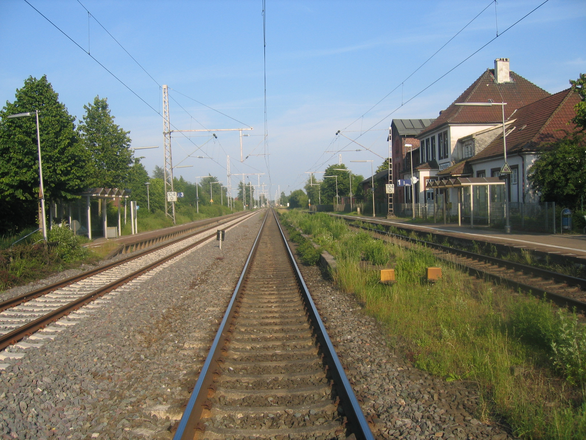 Bruchmühlen train station in Melle-Bruchmühlen, District of Osnabrück, Lower Saxony, Germany.